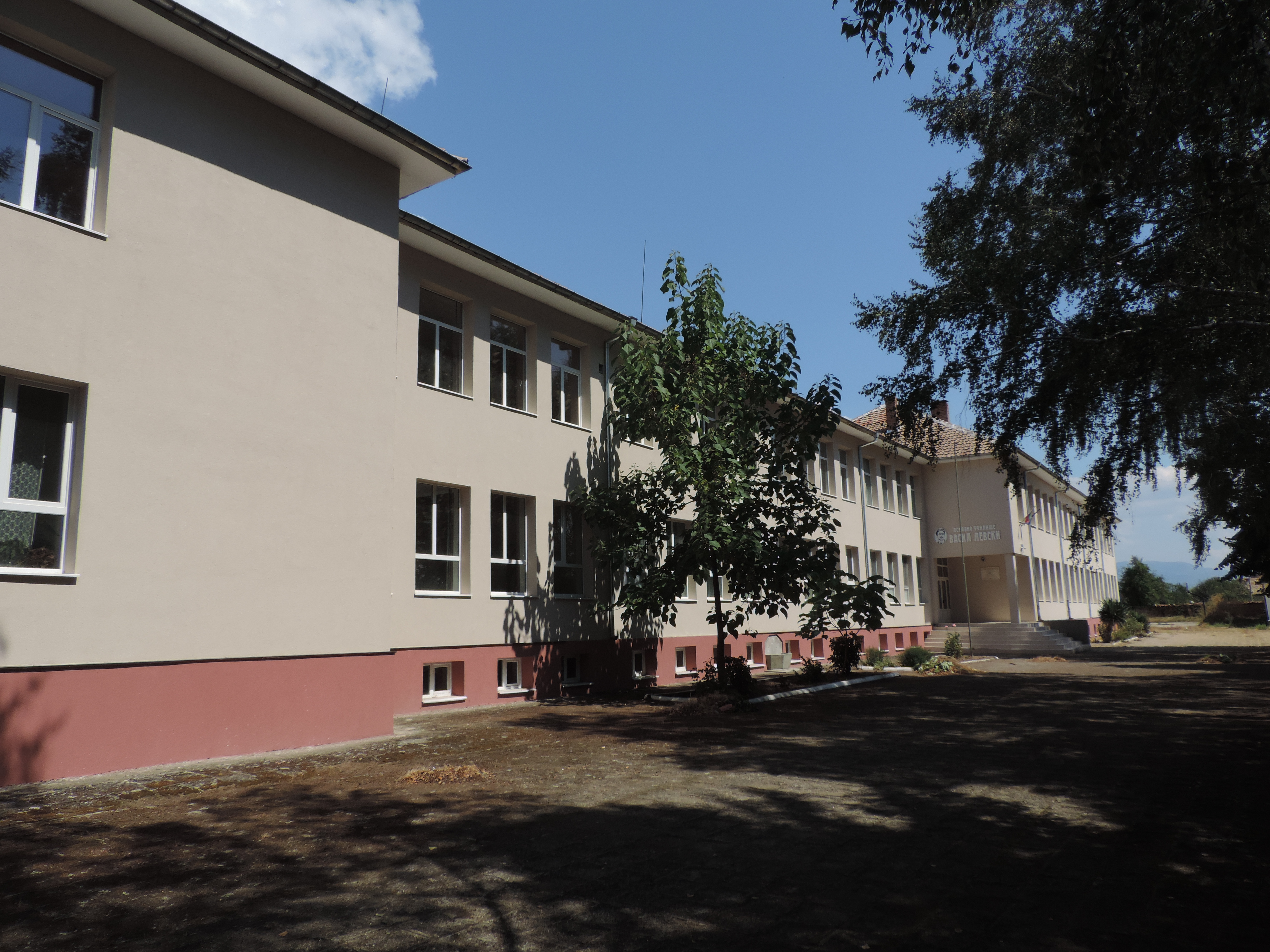 "Vasil Levski" Elementary School - village Gorno Sahrane, Pavel Banya Municipality, Stara Zagora Province, Bulgaria.